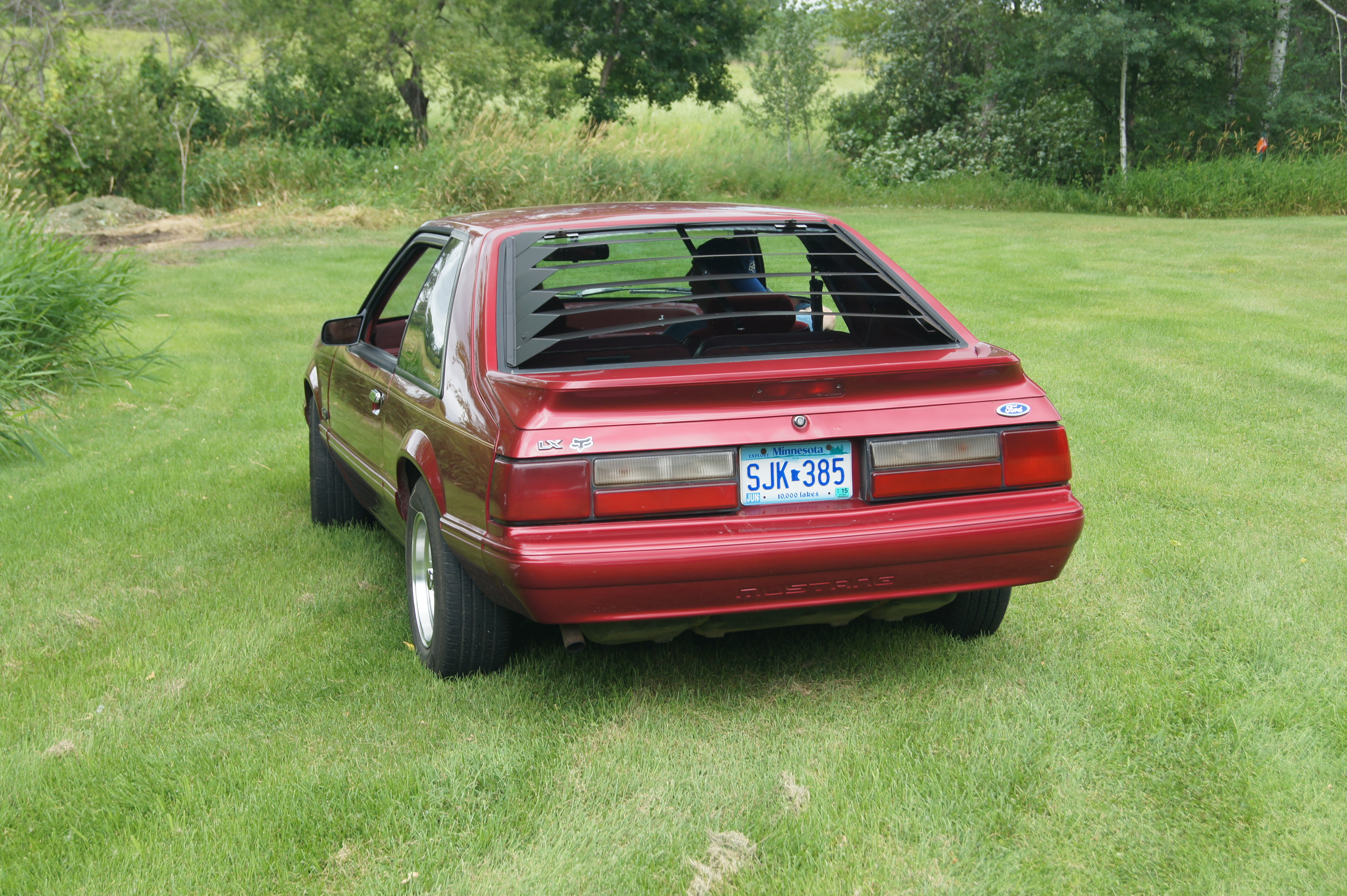 Paul and Carol hosted the 8th Annual "The Classic Cruise In" Another success: great food, fun and nice weather July 2014 Spicer, Minnesota Thousands more of my car pictures available by clicking link below: Check other Willmar Car Club events here